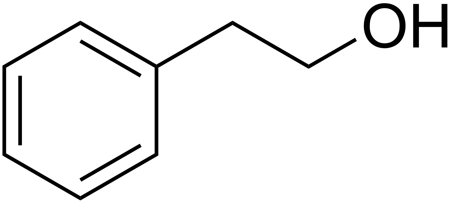 chemical structure of phenethyl alcohol